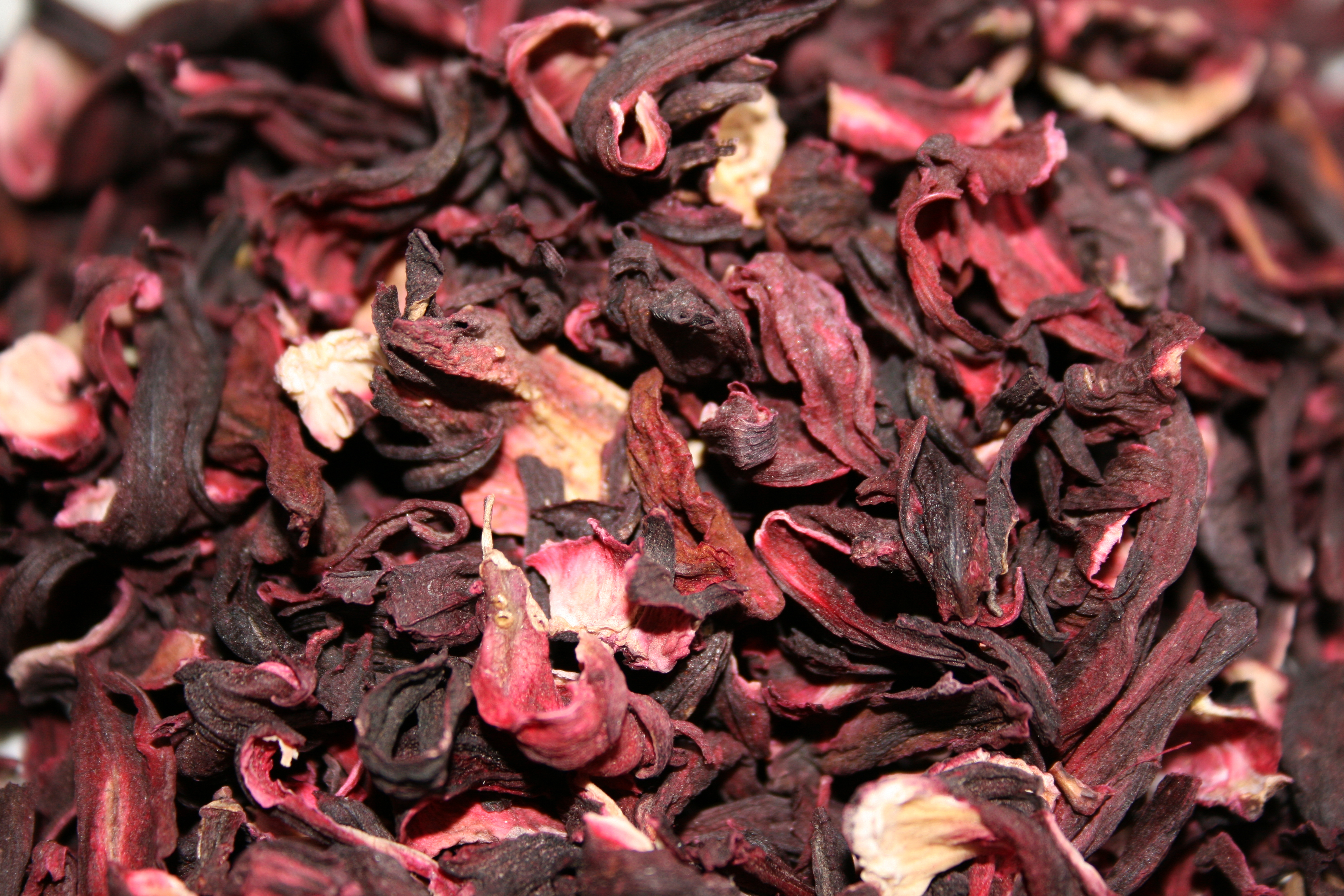 Dried flowers of Hibiscus sabdariffa which are used for making tea.